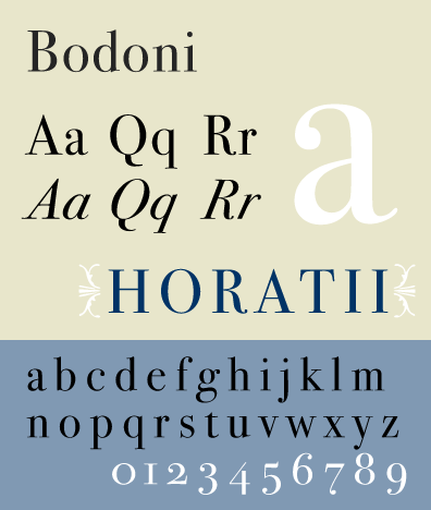 Specimen of the typeface ITC Bodoni, Jim Hood